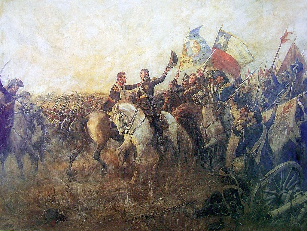 The "Embrace of Maipú" between José de San Martín y Bernardo O'Higgins after the victory in the Battle of Maipú, April 5th, 1818.